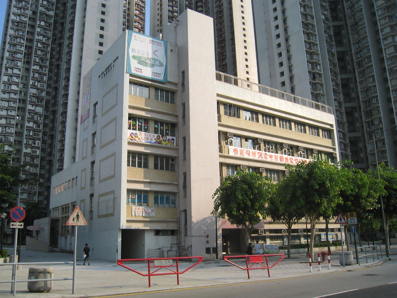 HK Tin Shui Community Centre 天瑞社區中心